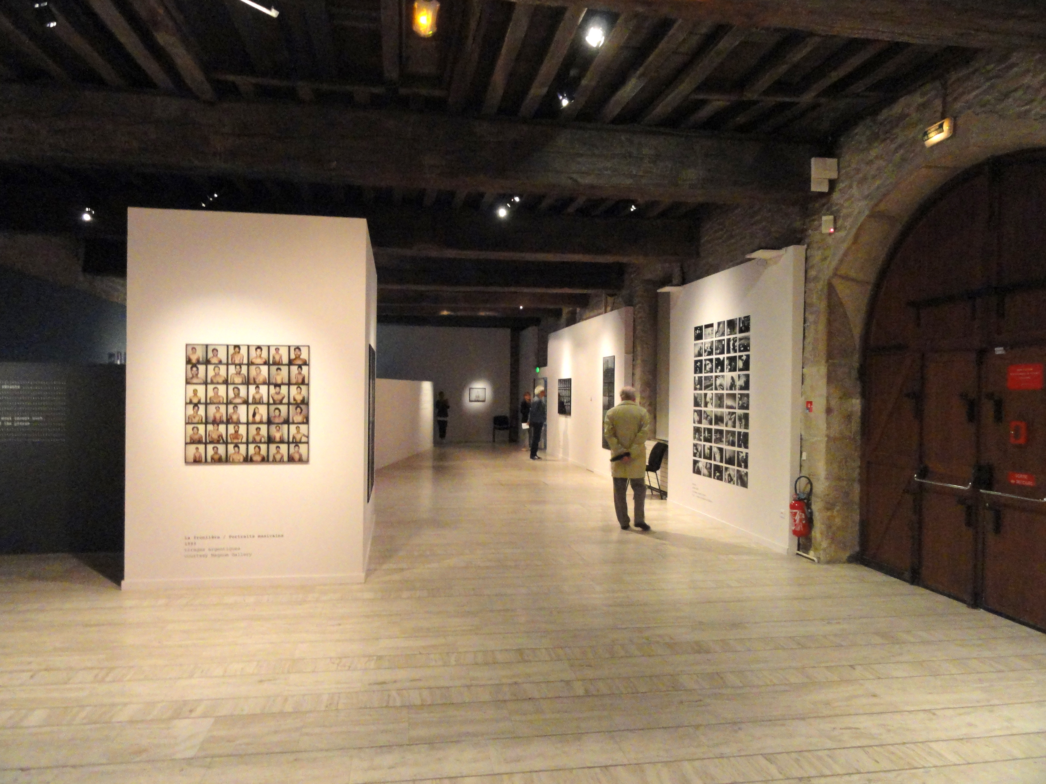 Exhibit in the Musée Nicéphore Niépce, 28 Quai Messageries, Saône-et-Loire, France. There were no restrictions on photography in the museum.